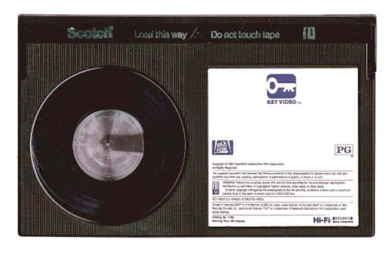 This a picture that I took of a Betamax Tape. I erased the title of the tape. This in my opinion falls under fair use.